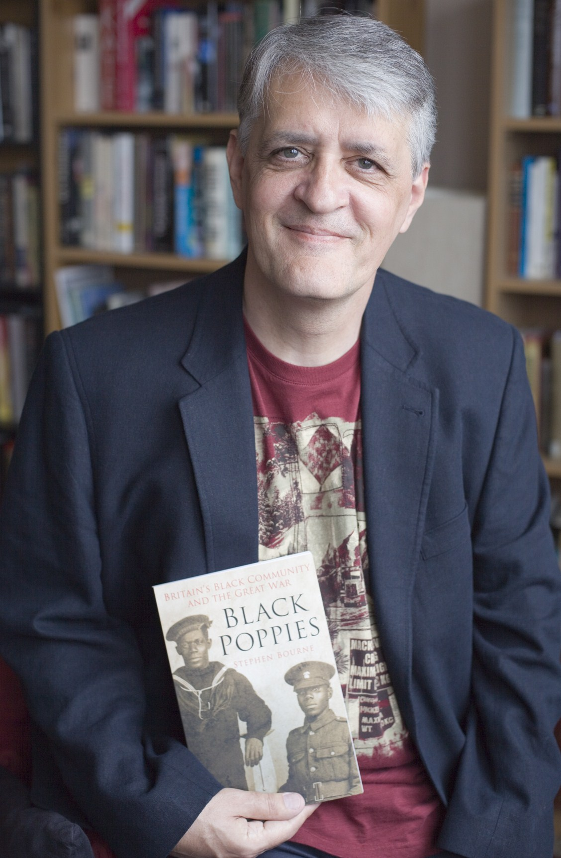 Photograph of Stephen Bourne with his book Black Poppies: Britain's Black Community and the Great War